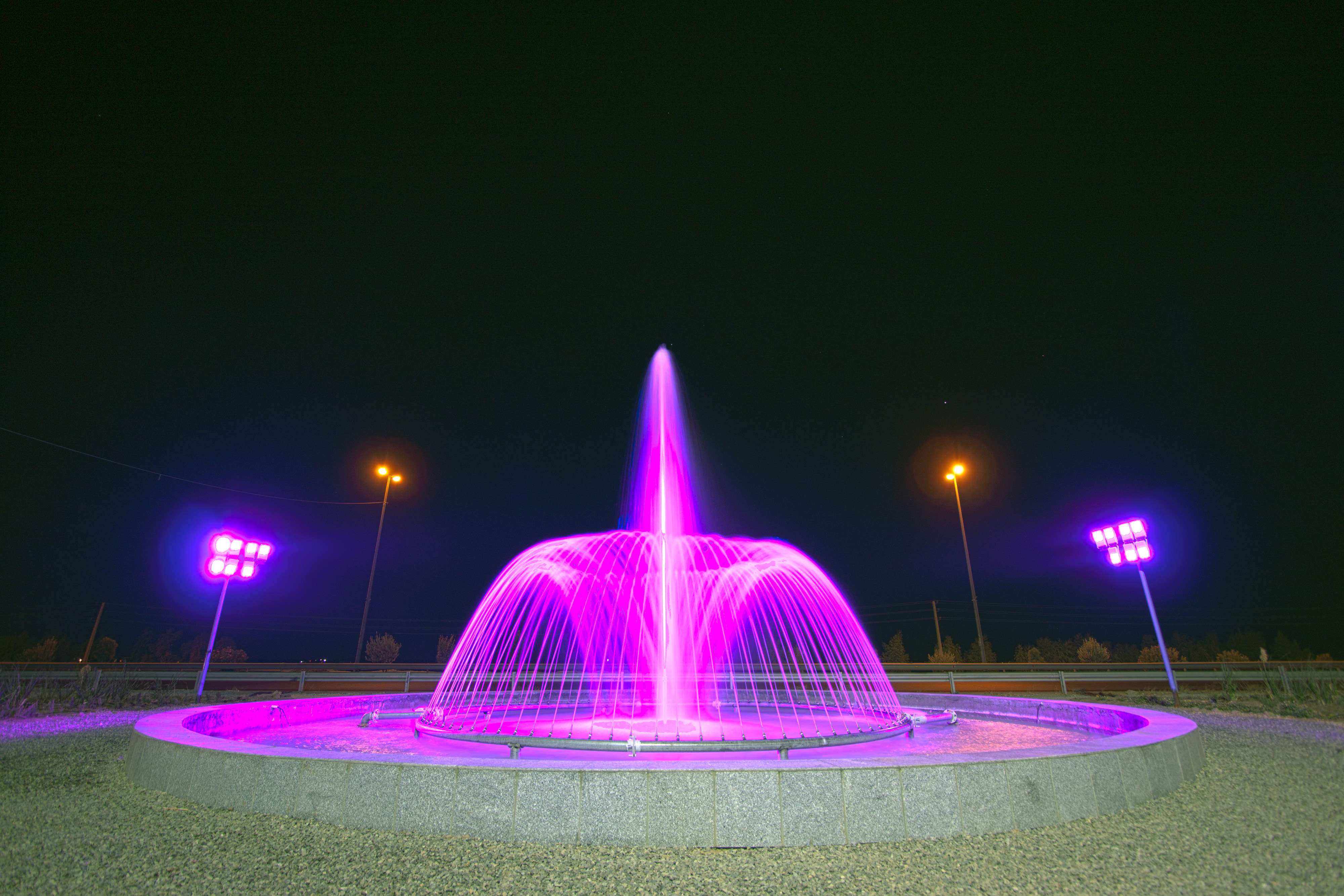 Street furniture is a collective term for objects and pieces of equipment installed along streets and roads for various purposes.